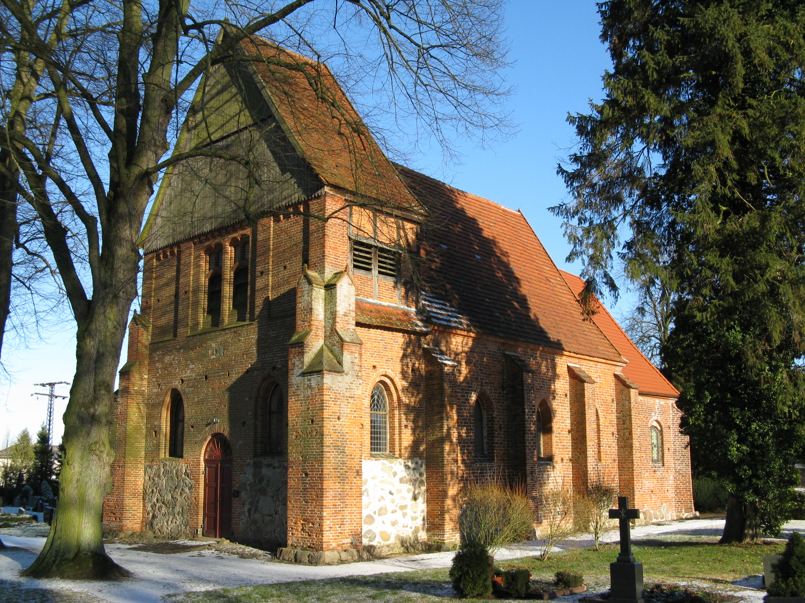 Church in Pokrent, Mecklenburg-Vorpommern, Germany